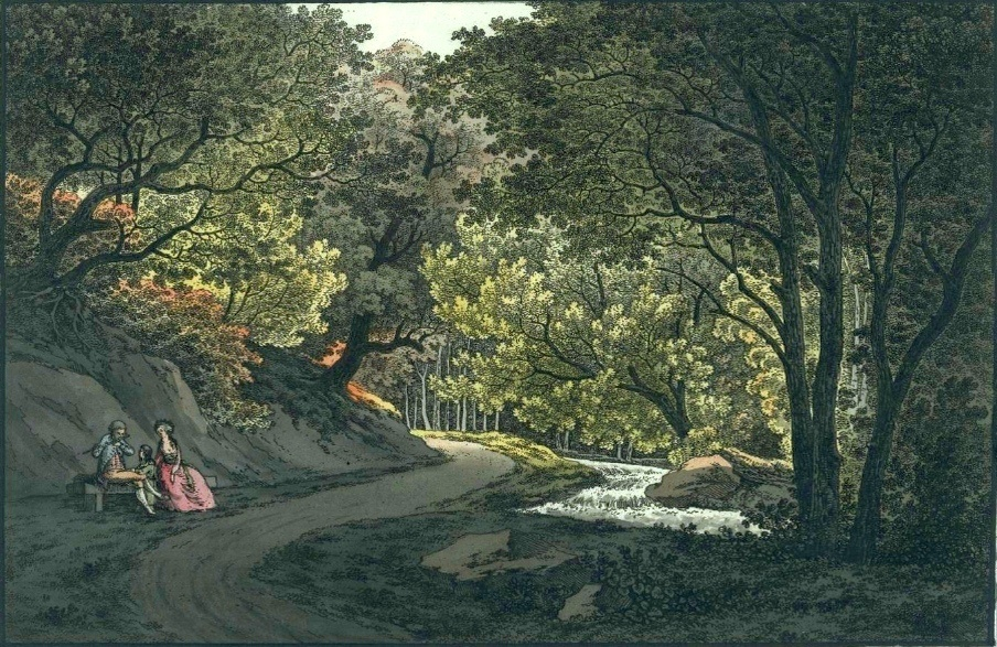 View into the Valley of Pillnitz (Friedrichgsrund) near Dresden